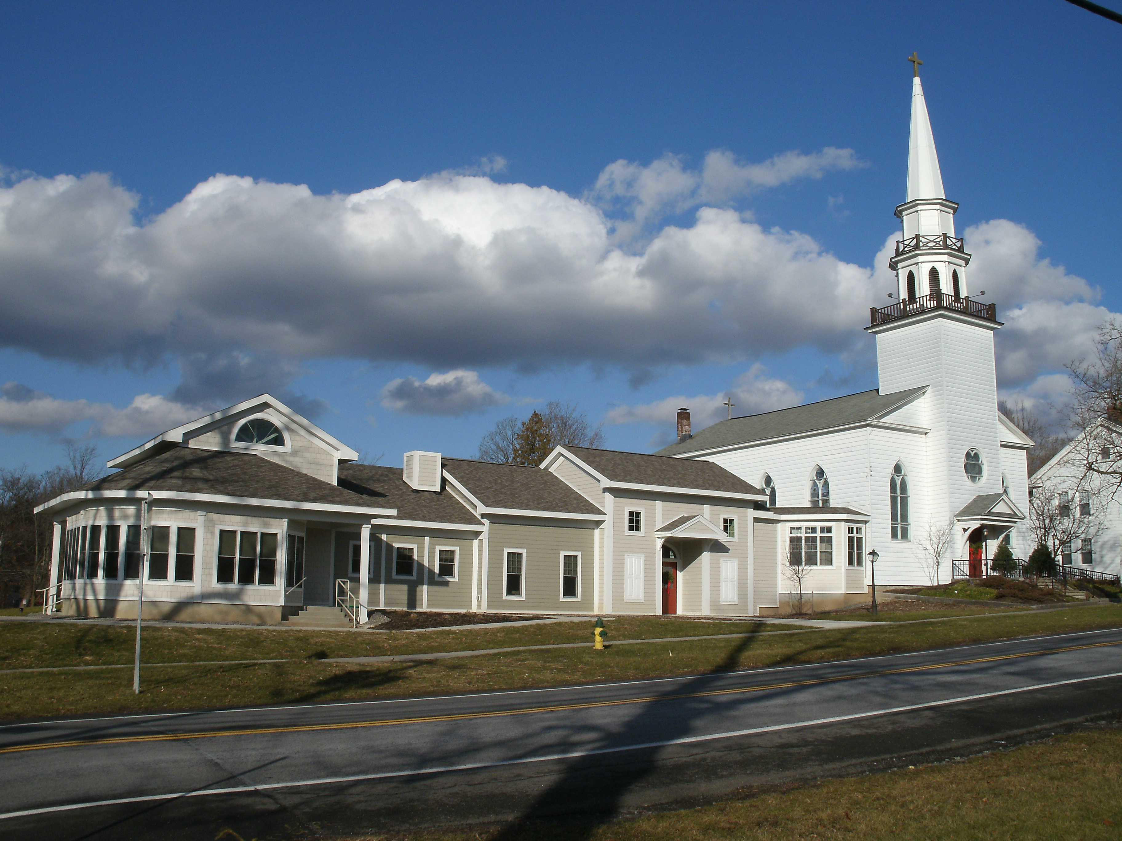 Christ Church, on Seneca Turnpike, in Manlius, New York